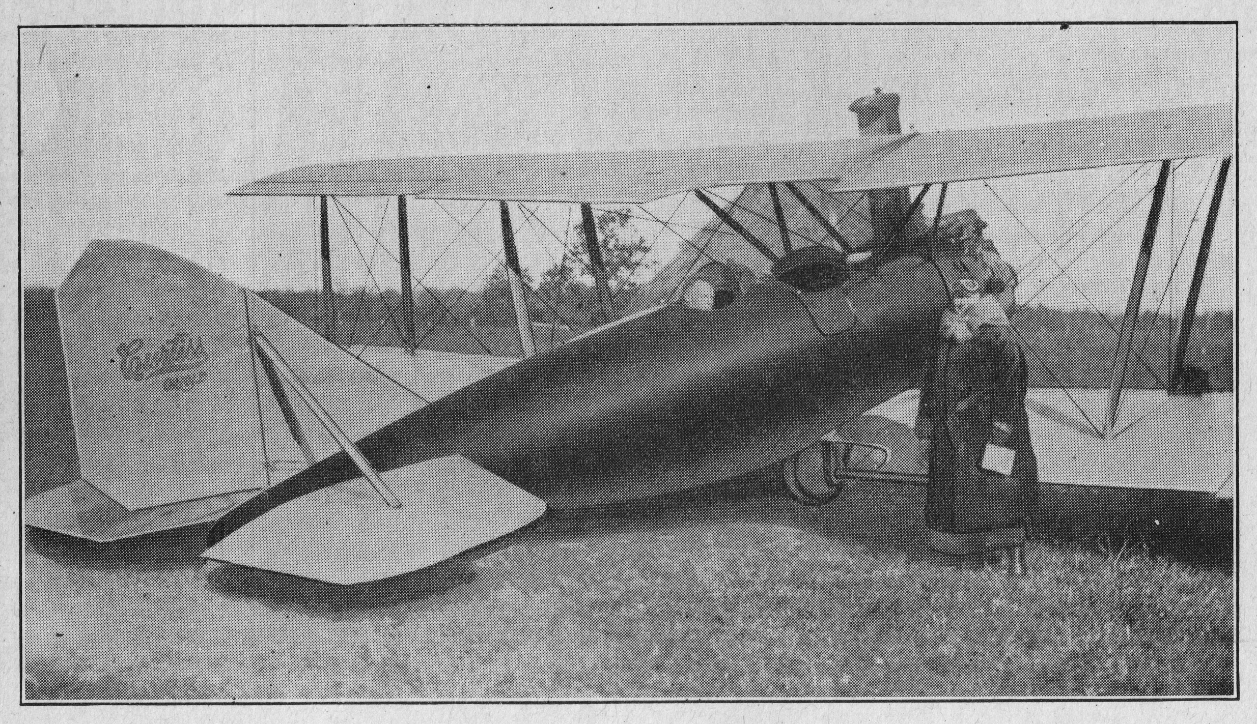 Dr. Ada E. Schweitzer standing by the side of a Curtiss Oriole at Lagrange, Ind.